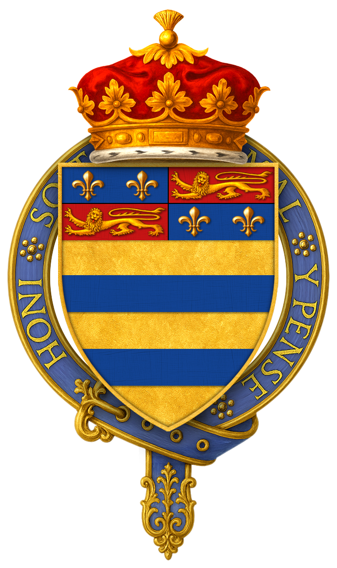 Garter encircled shield of arms of John Manners, 7th Duke of Rutland, KG, as displayed on his Order of the Garter stall plate in St. George's Chapel.